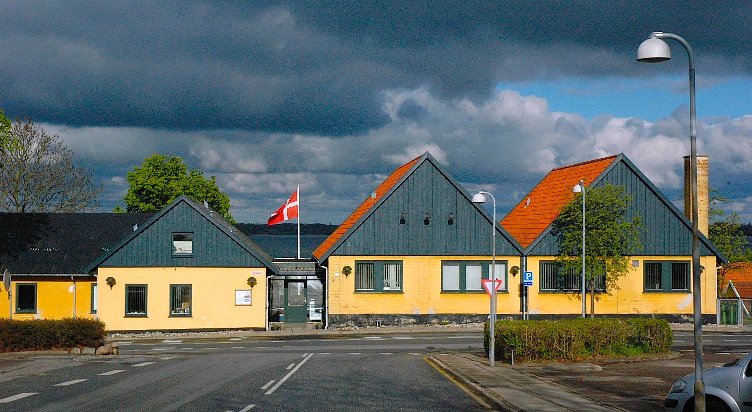 The Fjord Museum in Jyllinge, Denmark